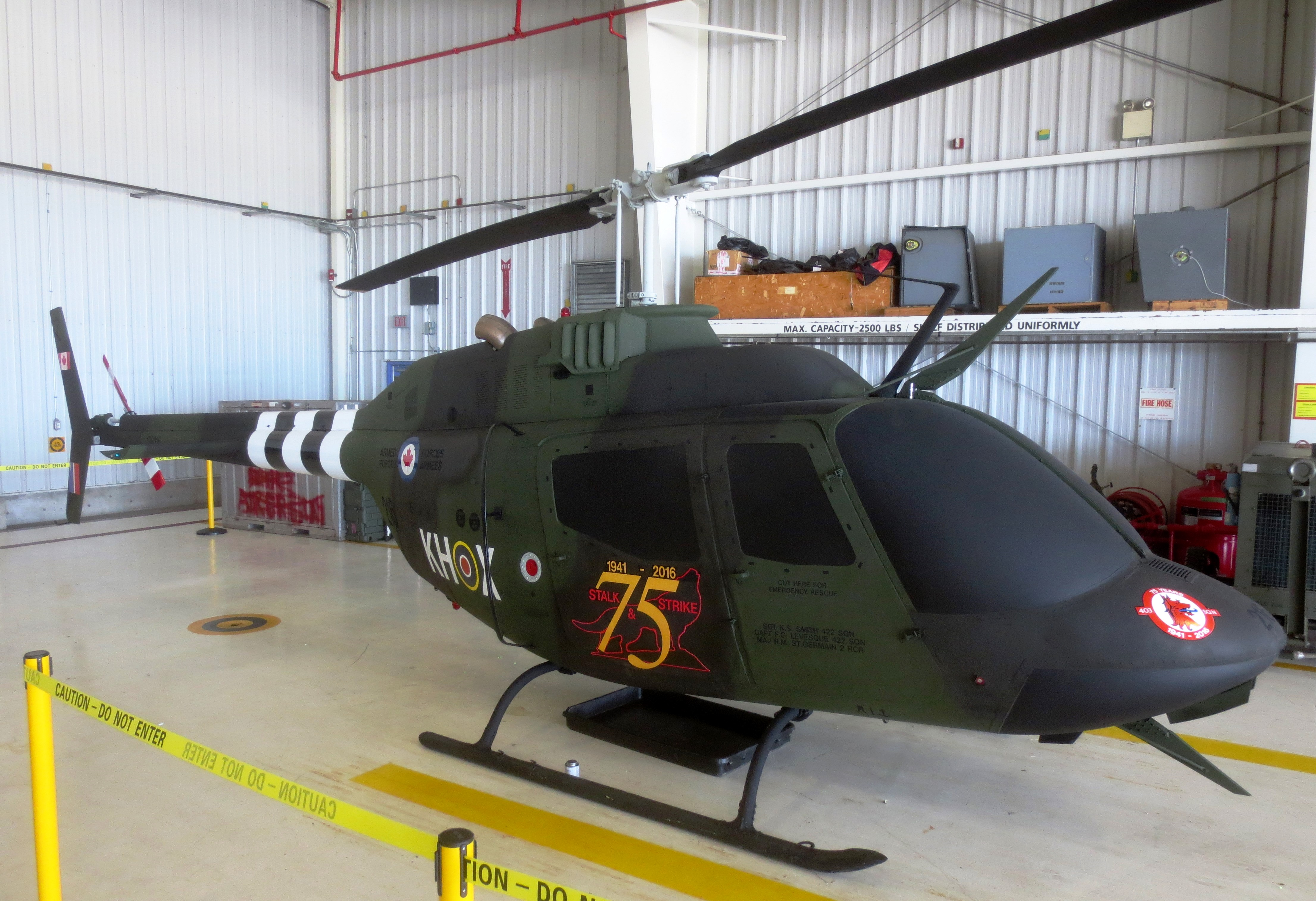 Bell CH-136 Kiowa Helicopter (Serial No. 136216), RCAF, painted in D-Day colours to commemorate the 75th Anniversary of the formation of 403 Squadron, now 403 Helicopter Operational Training Squadron, 1 Wing, at 5 CDSG Base Gagetown, New Brunswick.